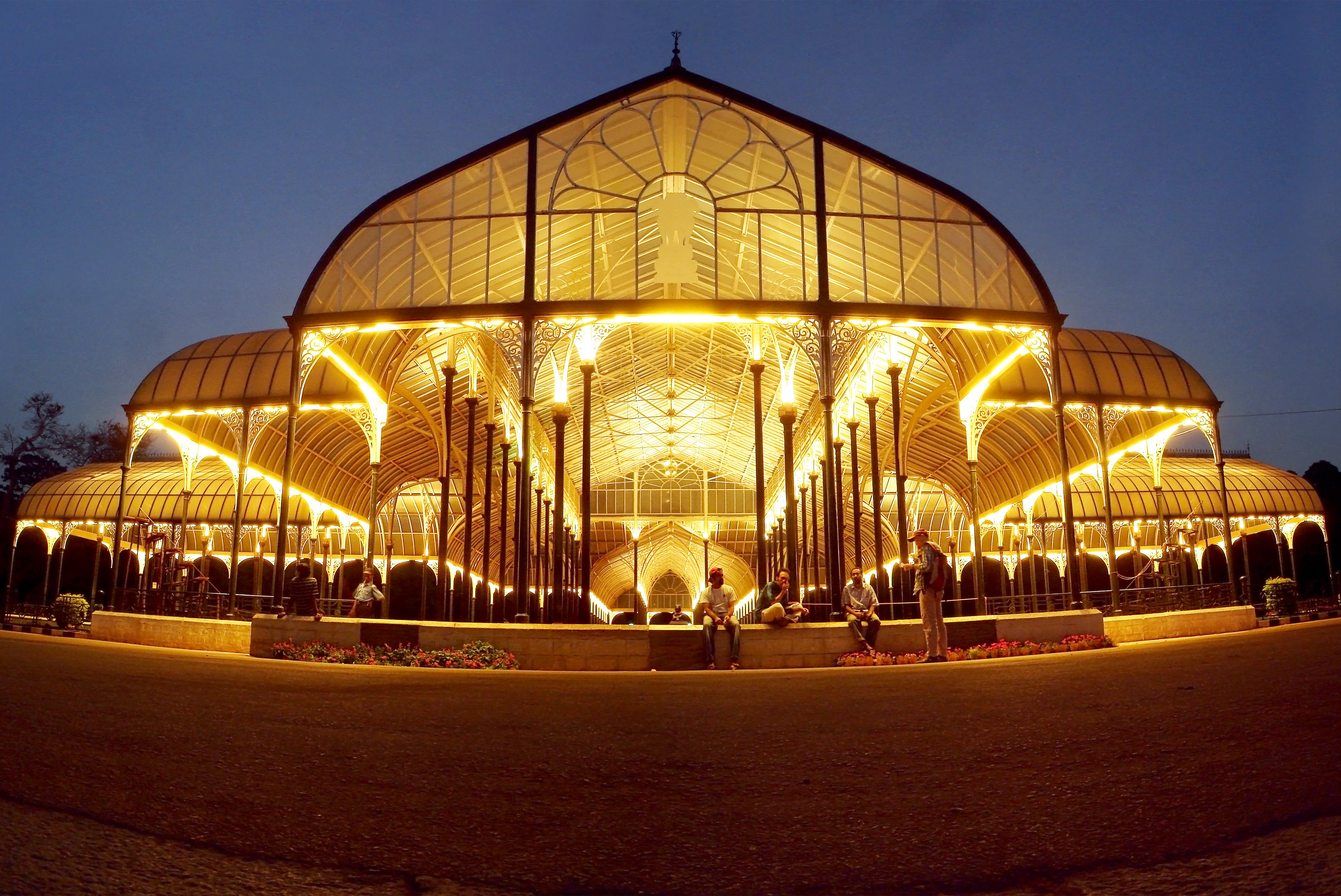 The Lalbagh glass house conservatory at the Lalbagh Botanical Gardens, of Bangalore - India. The foundation stone for the Glass House, modeled on London's Crystal Palace was laid on 1898.